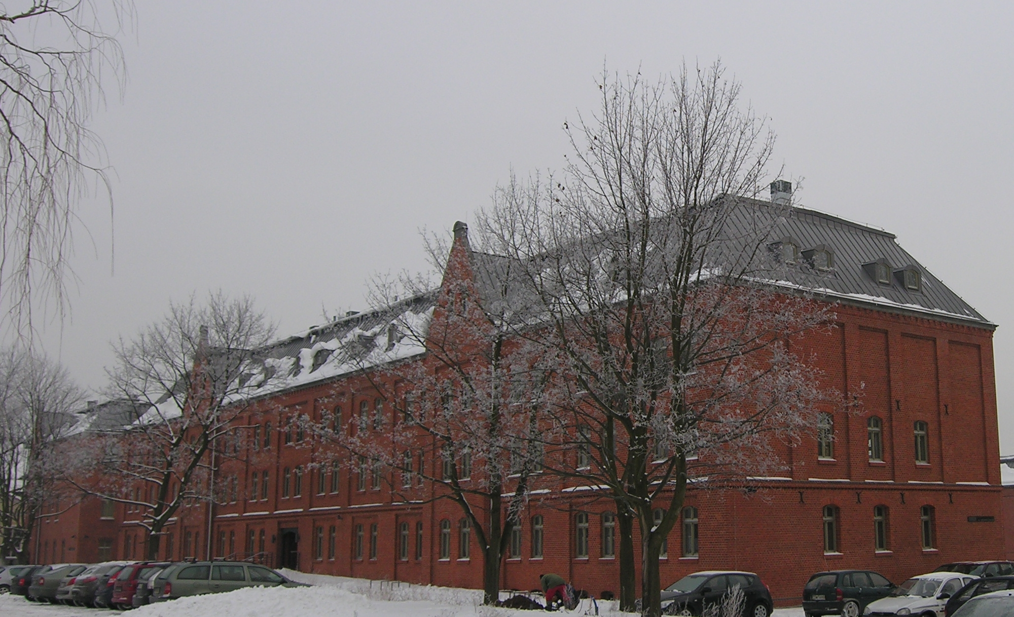 Antique, ex-military buildings of Garnizon, in Gdańsk city, Wrzeszcz and Strzyża district, built in 1893-1896, renovated between 2006 and 2009.